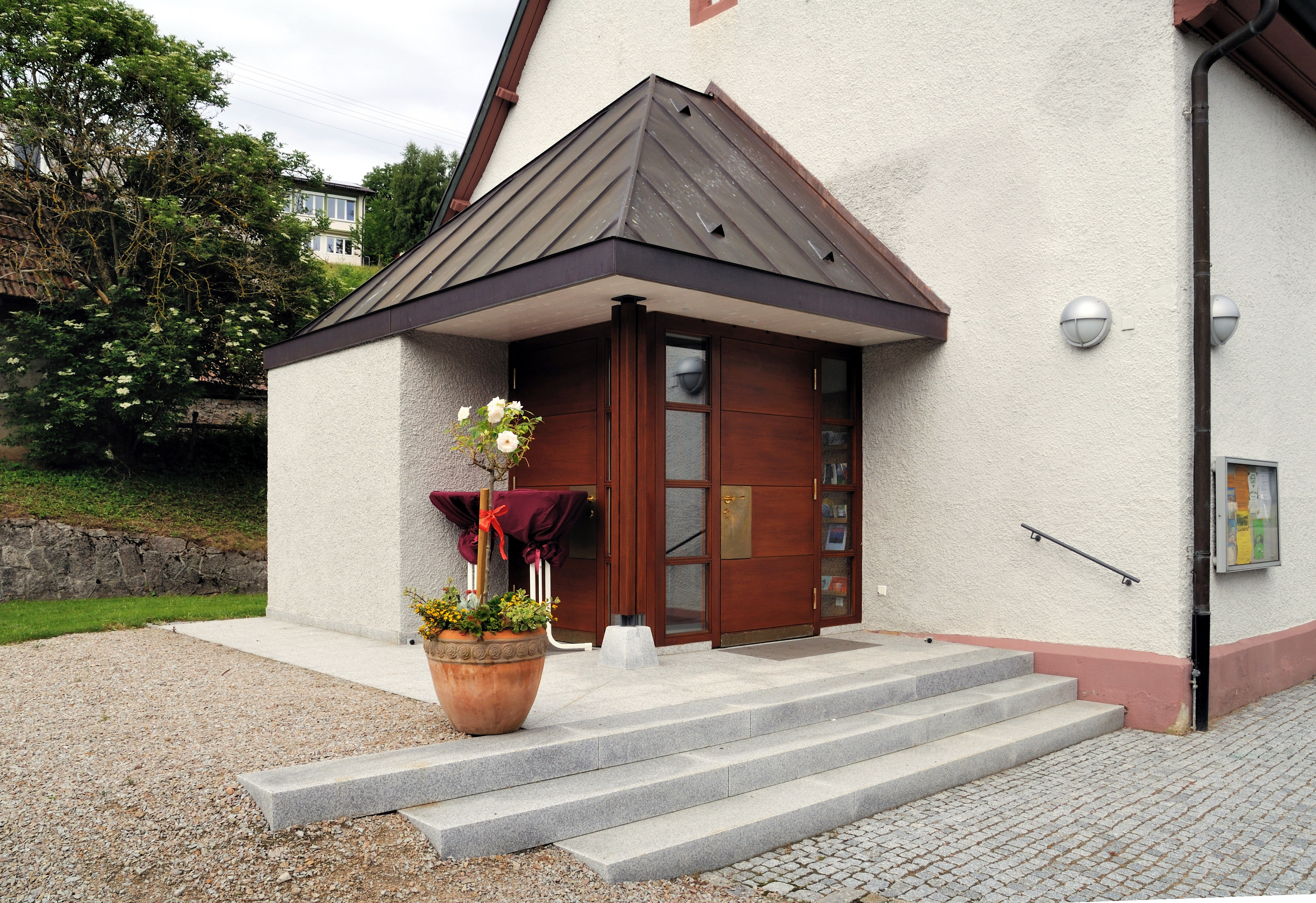 Marzell: Protestant Church